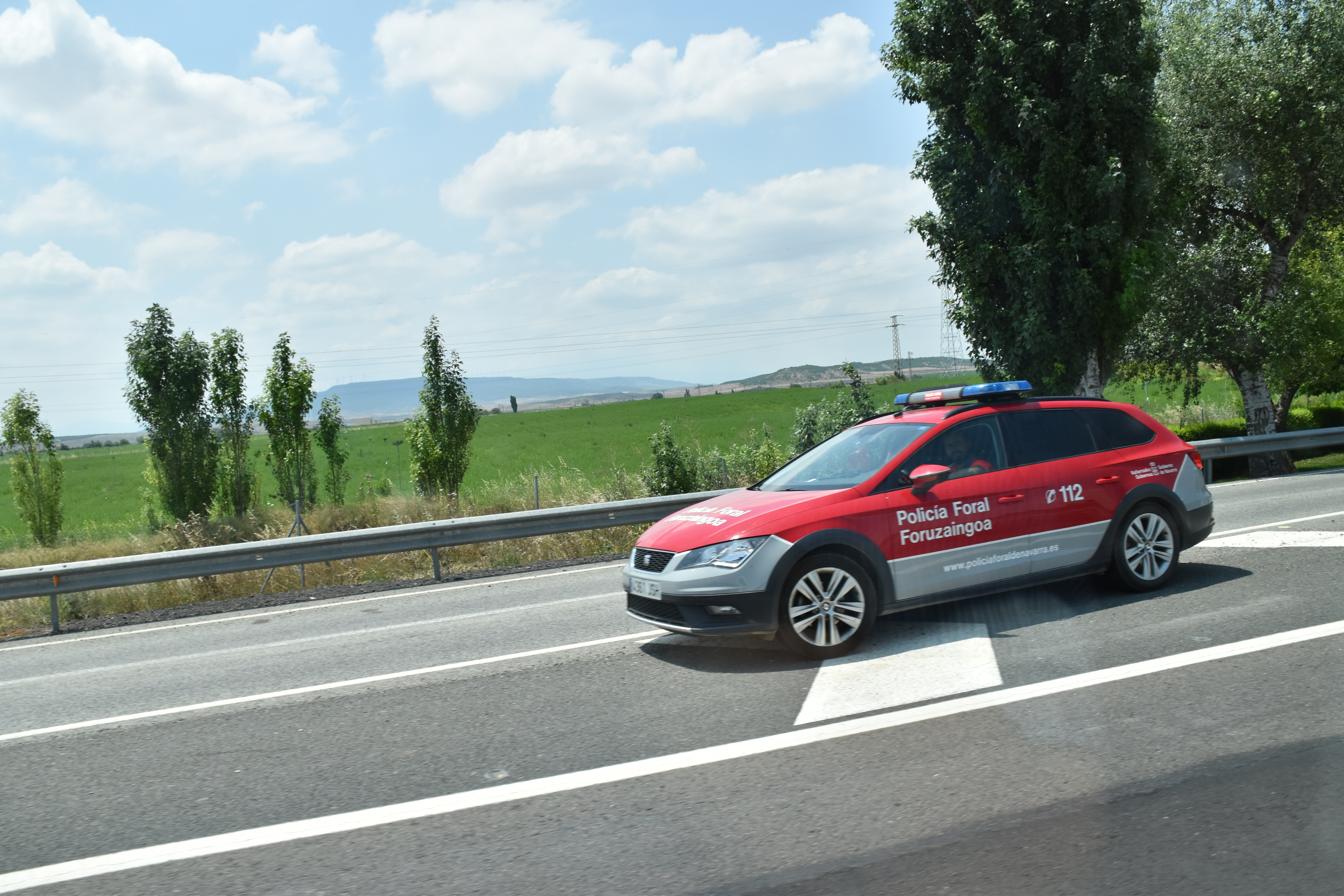 Car of Policía Foral de Navarra at N-232.